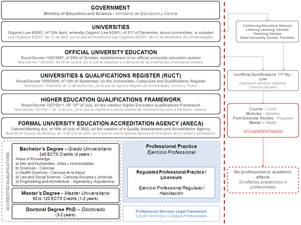 Spanish Official University Education Legal Framework - Official university qualifications and accreditation, applicable laws and regulations.